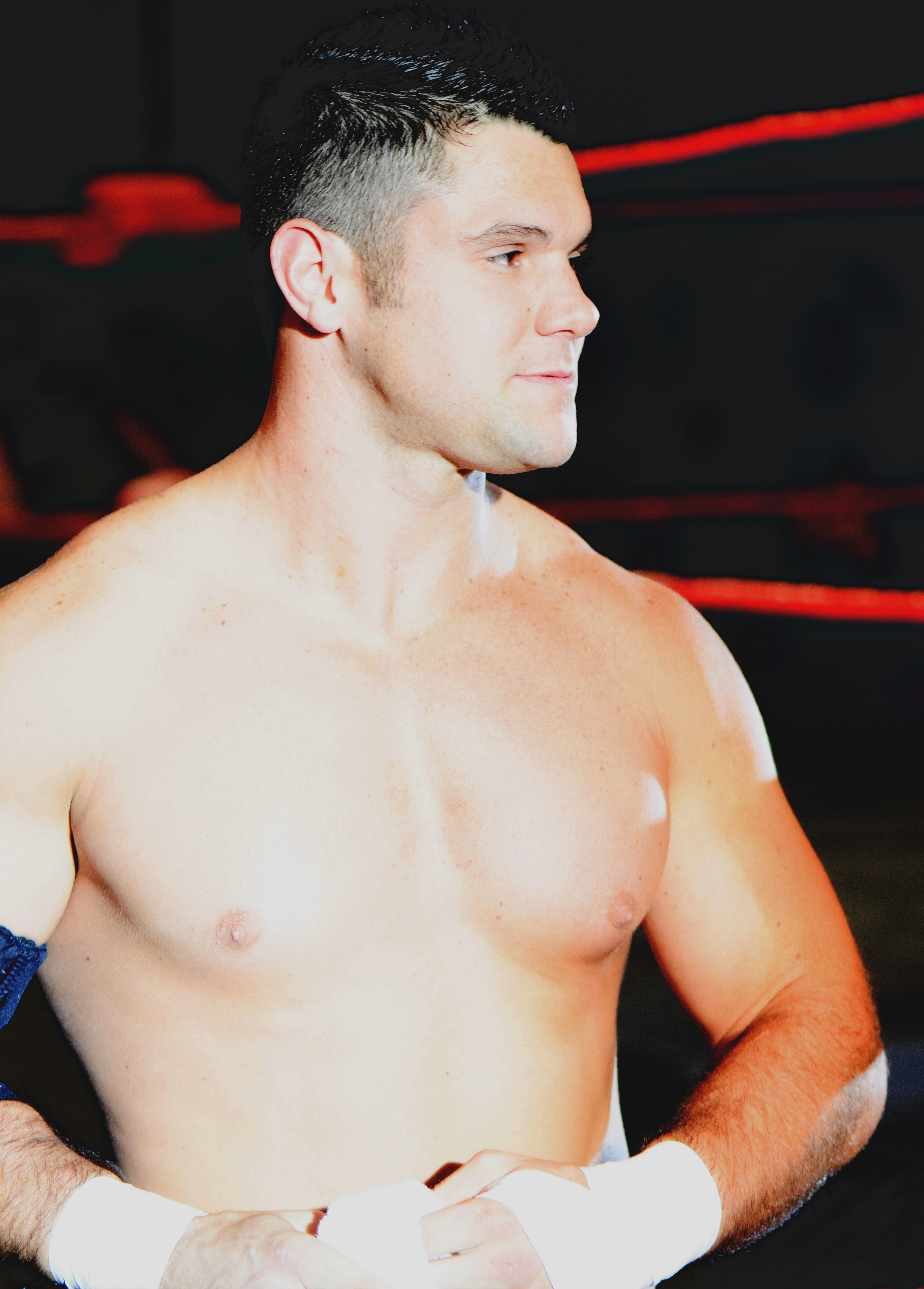 Eddie Edwards at a Ring of Honor show on August 13, 2011.